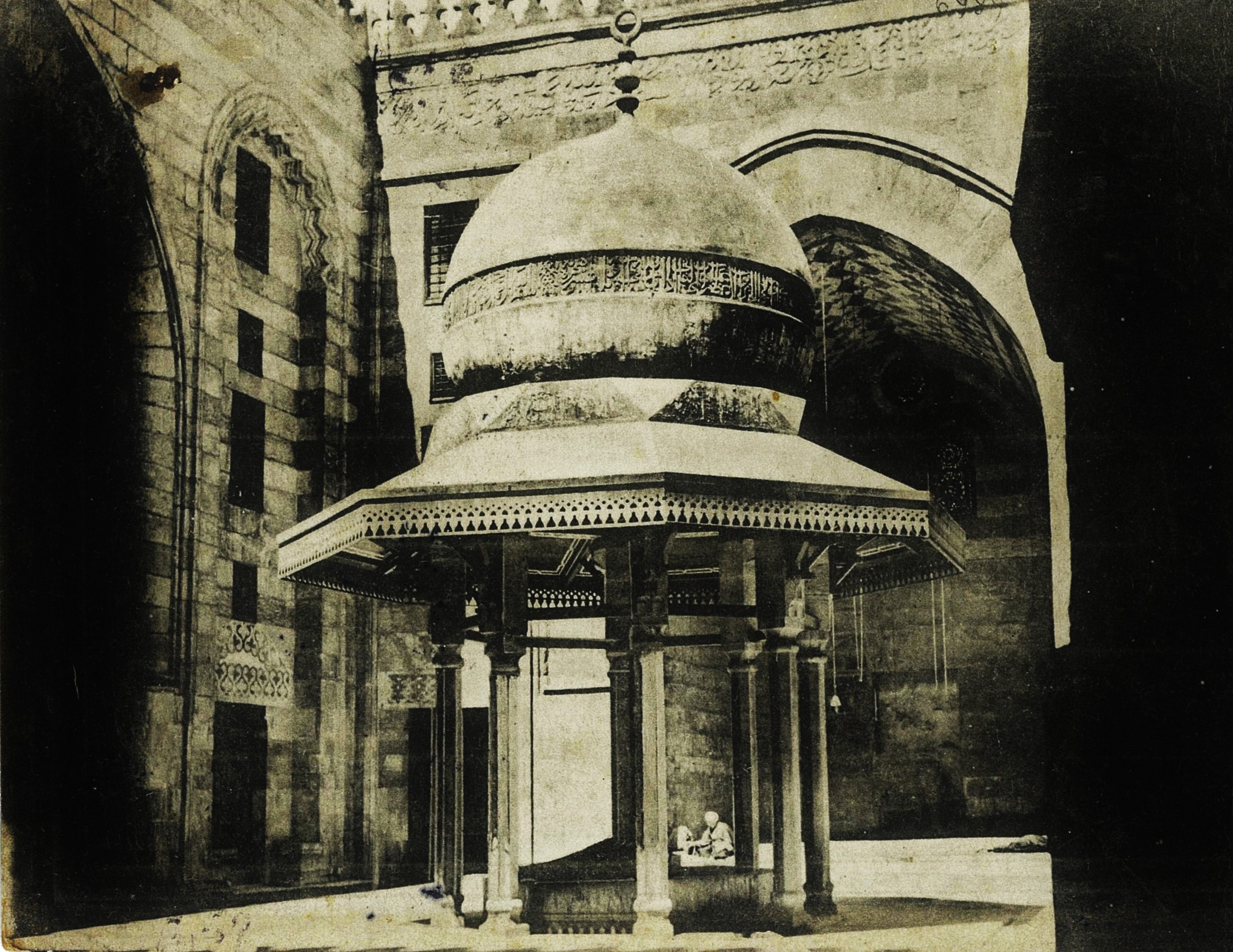 Fountain in Sultan Barquq’s mosque. Analogical reconstruction by Herz, because no information was available on its original shape. Postcard c. 1900.